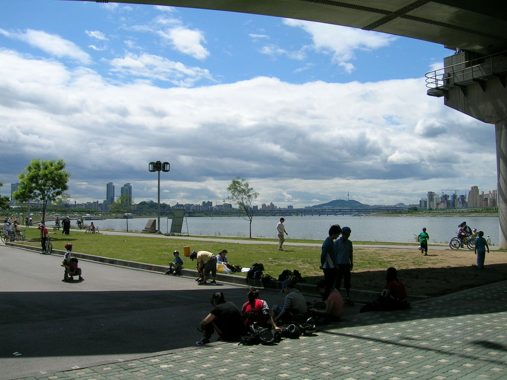 Seoul, South Korea